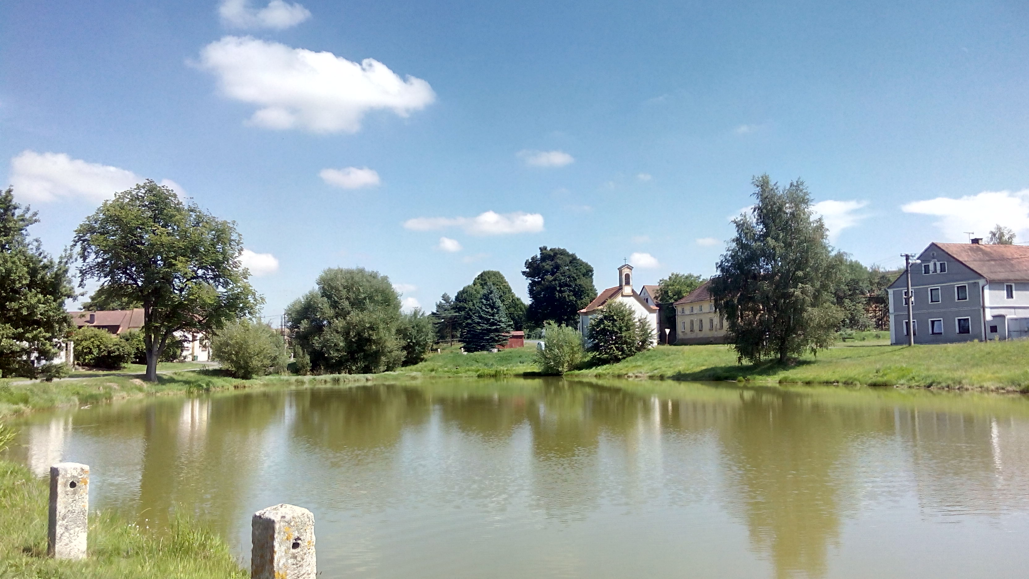 Village green in Věvrov, part of Horšovský Týn, Plzeň Region, Czech Republic.